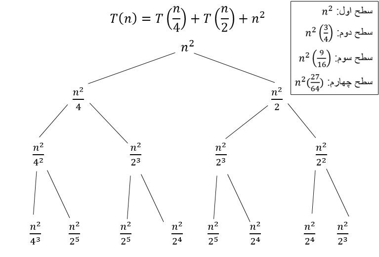 Recursion Tree